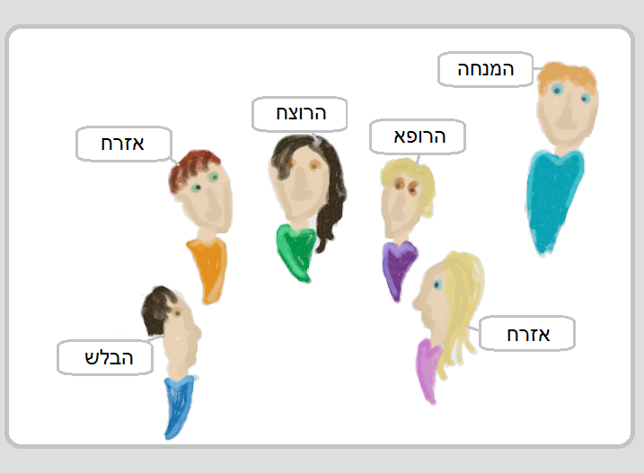 ציור המשויך למשחק הרוצח